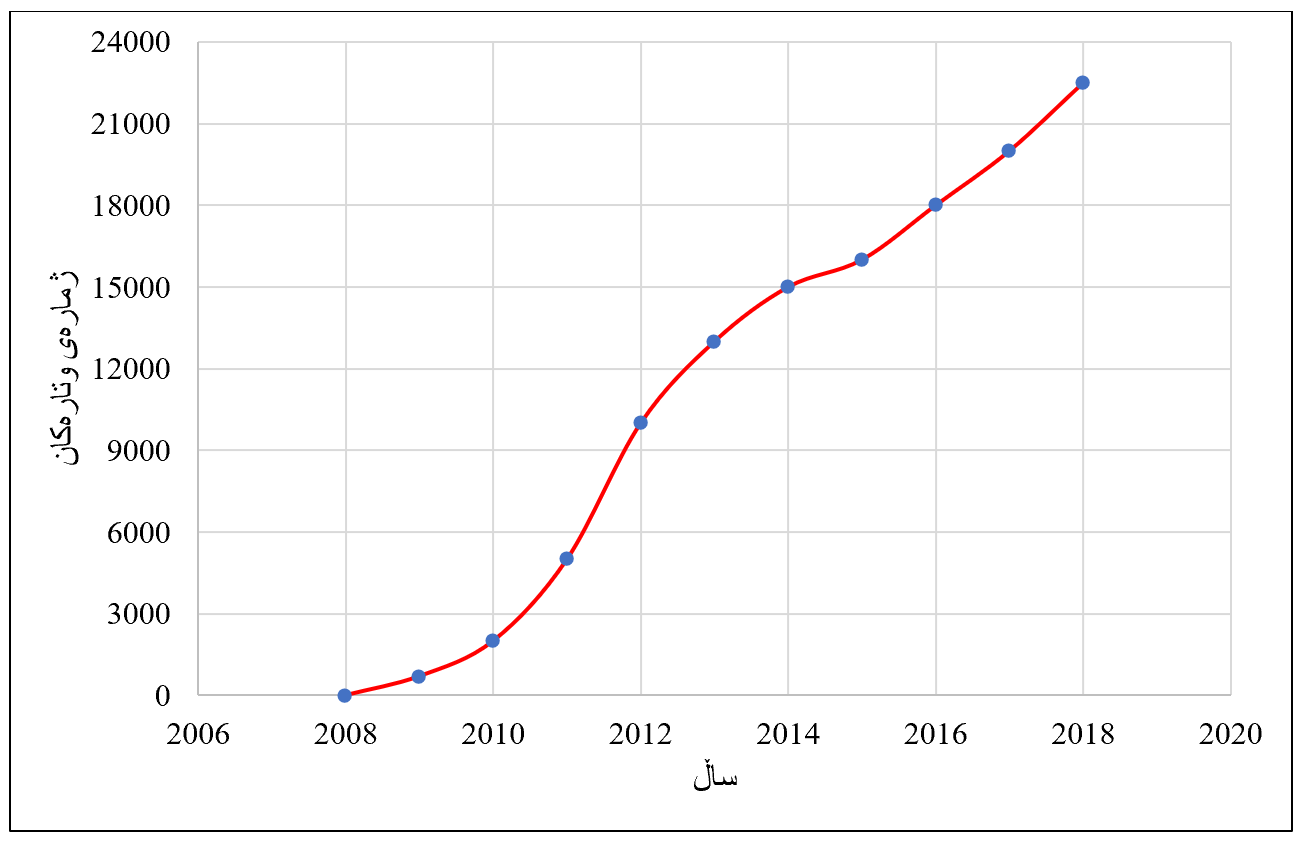 Number of articles in Kurdish Wikipedia over years